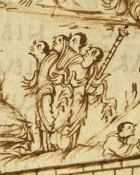 Clipping from Utrecht Psalter, showing a man holding a cythara (right), with a lyre or cithara . The depictions of the cytharas in the Utrecht Psalter have been used as evidence in the 1911 Encyclopedia Britannica that the guitar was developed from modifying the cithara-lyre.